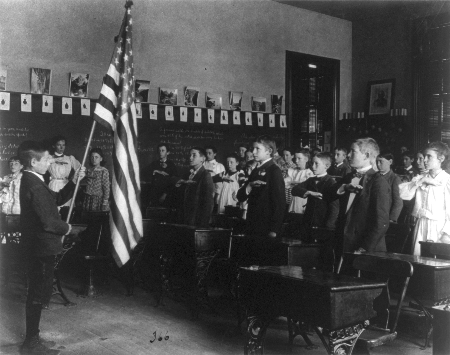 Students pledging to the flag, 1899, 8th Division, Washington, D.C. Part of the Frances Benjamin Johnston 1890 - 1900 Washington, D.C., school survey.